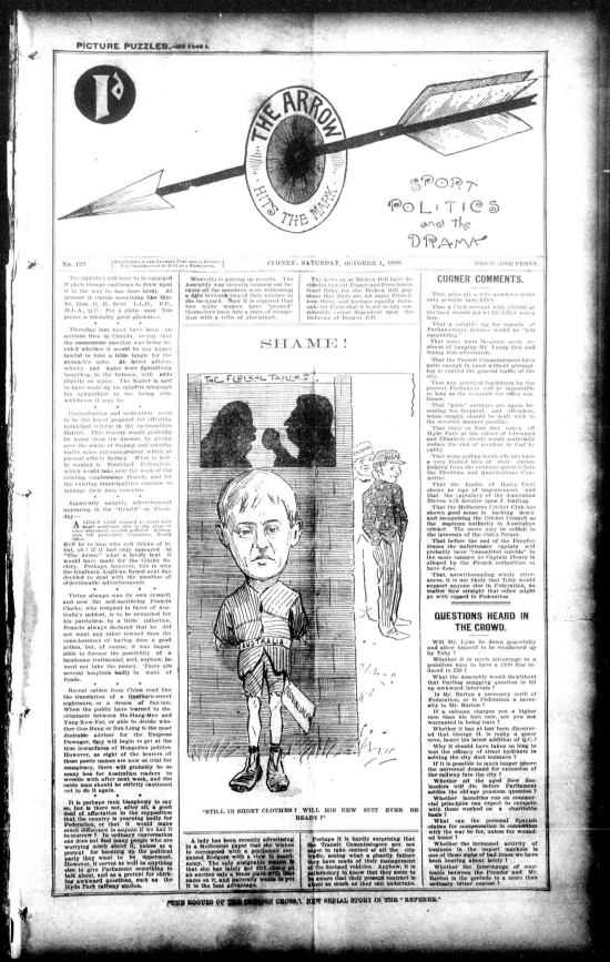 The front cover of the Arrow newspaper on 1 October 1898.